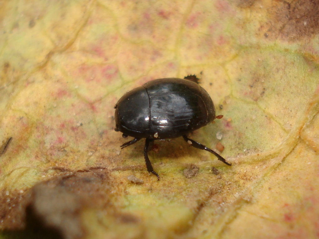 Margarinotus striola